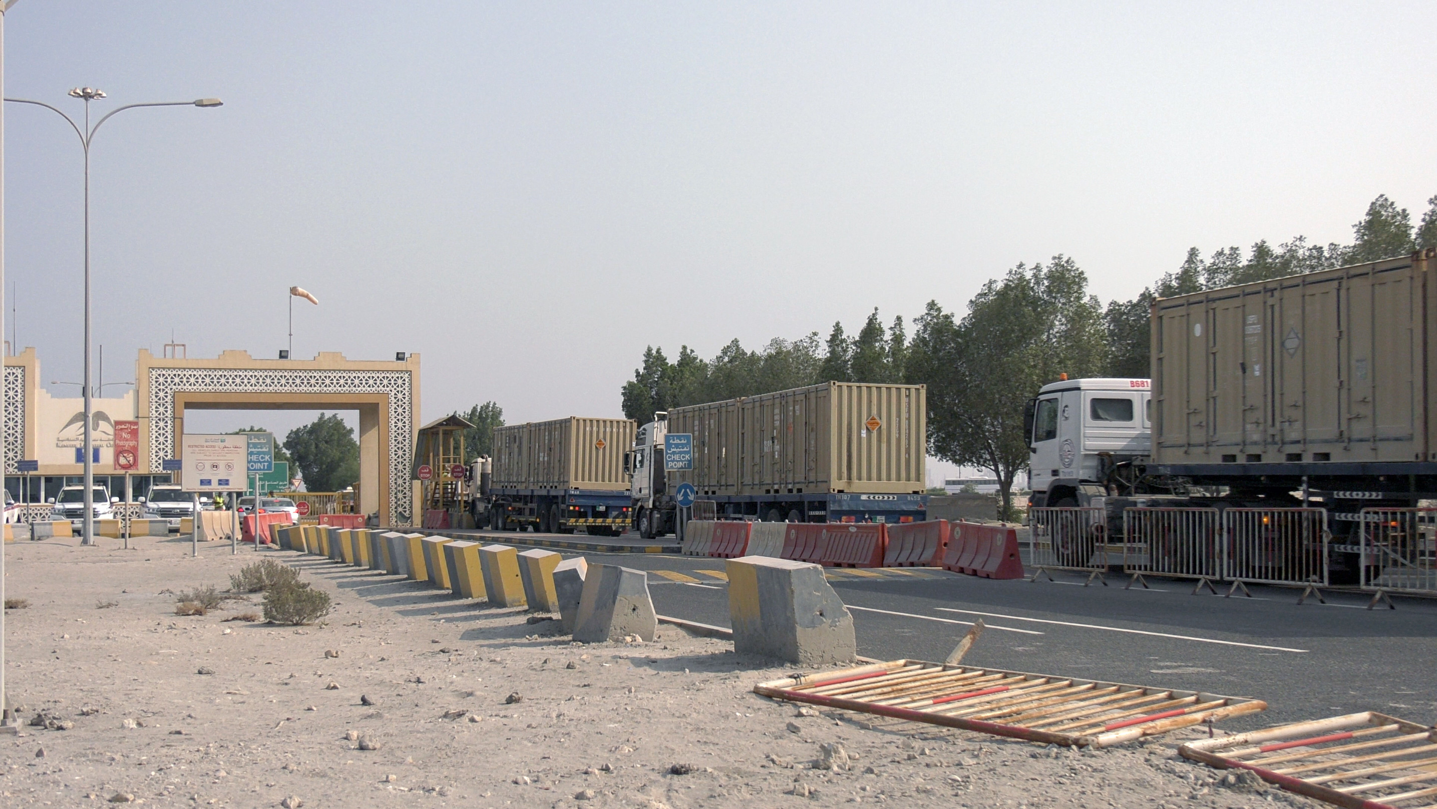 "A convoy of vehicles enters the Port of Masaieed, Qatar on Sept. 20 as part of the quarterly mission of the 831st Transportation Battalion. The 831st manages U.S. Army port operations in multiple countries throughout the area of responsibility, providing uninterrupted sustainment operations to warfighters in theater."